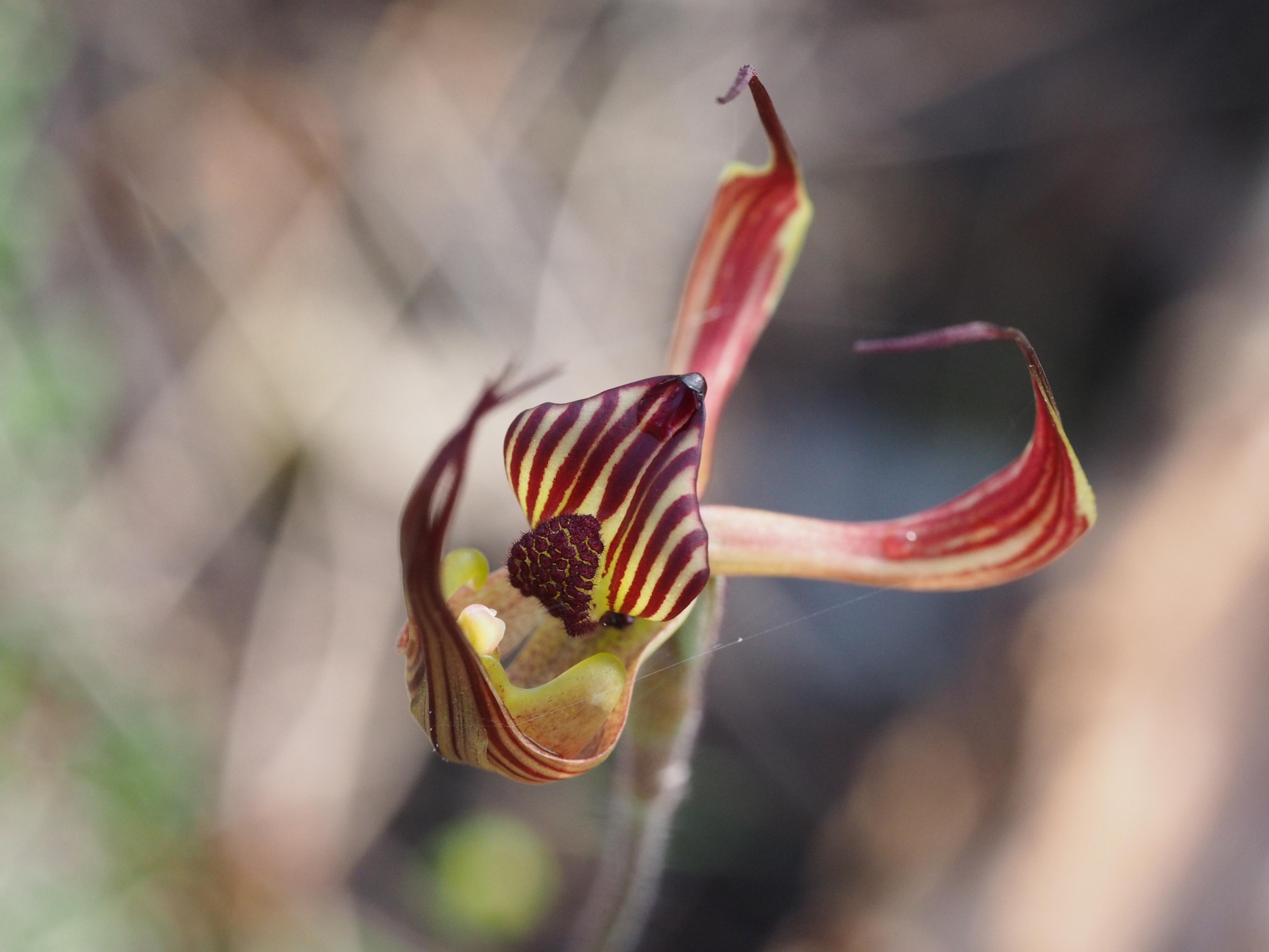 Caladenia multiclavia growing near Jerramungup in Western Australia